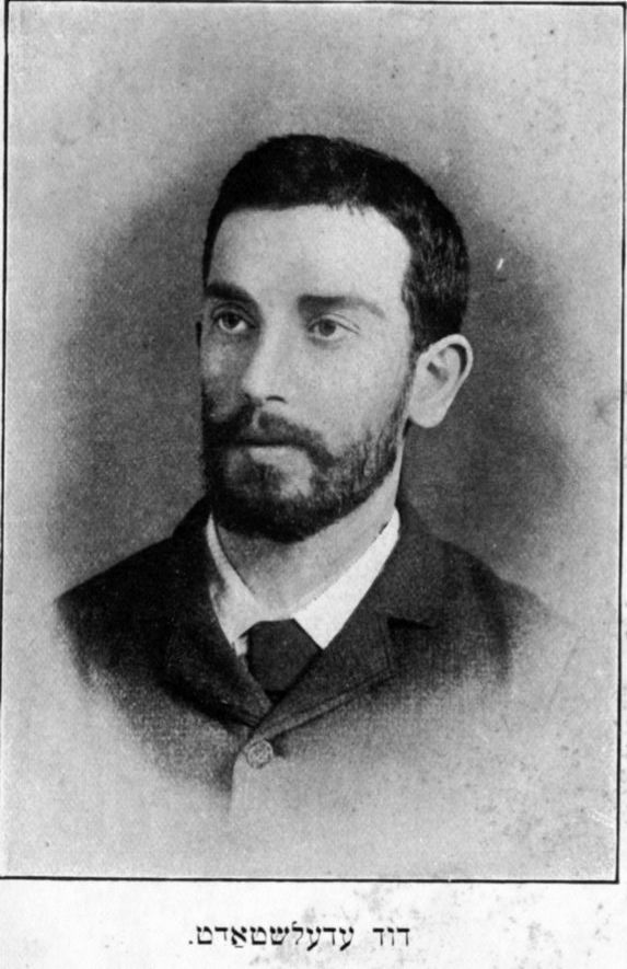 David Edelstadt (1866–1892), Yiddish poet